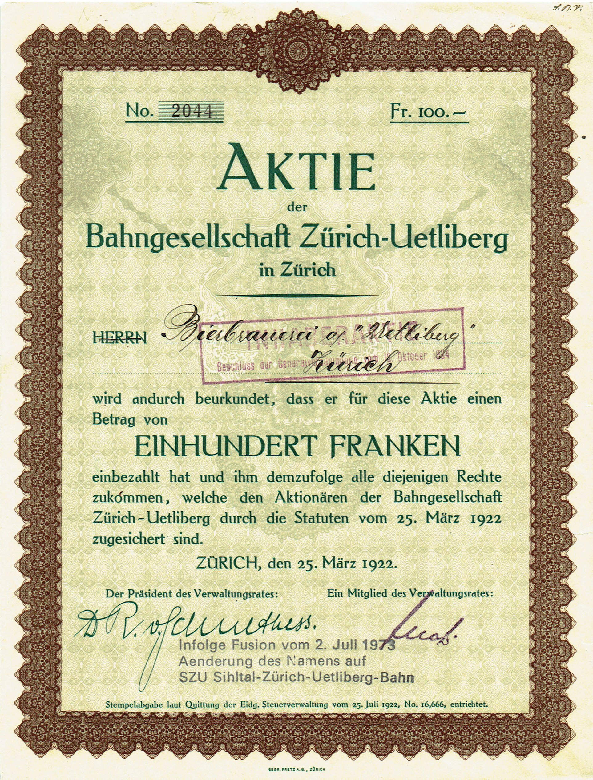 Share of the Bahngesellschaft Zürich-Uetliberg, issued 25. March 1922